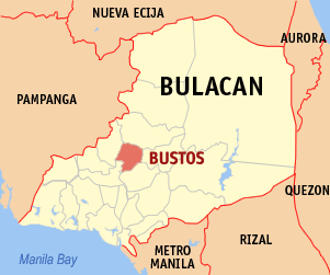 Map of Bulacan showing the location of Bustos